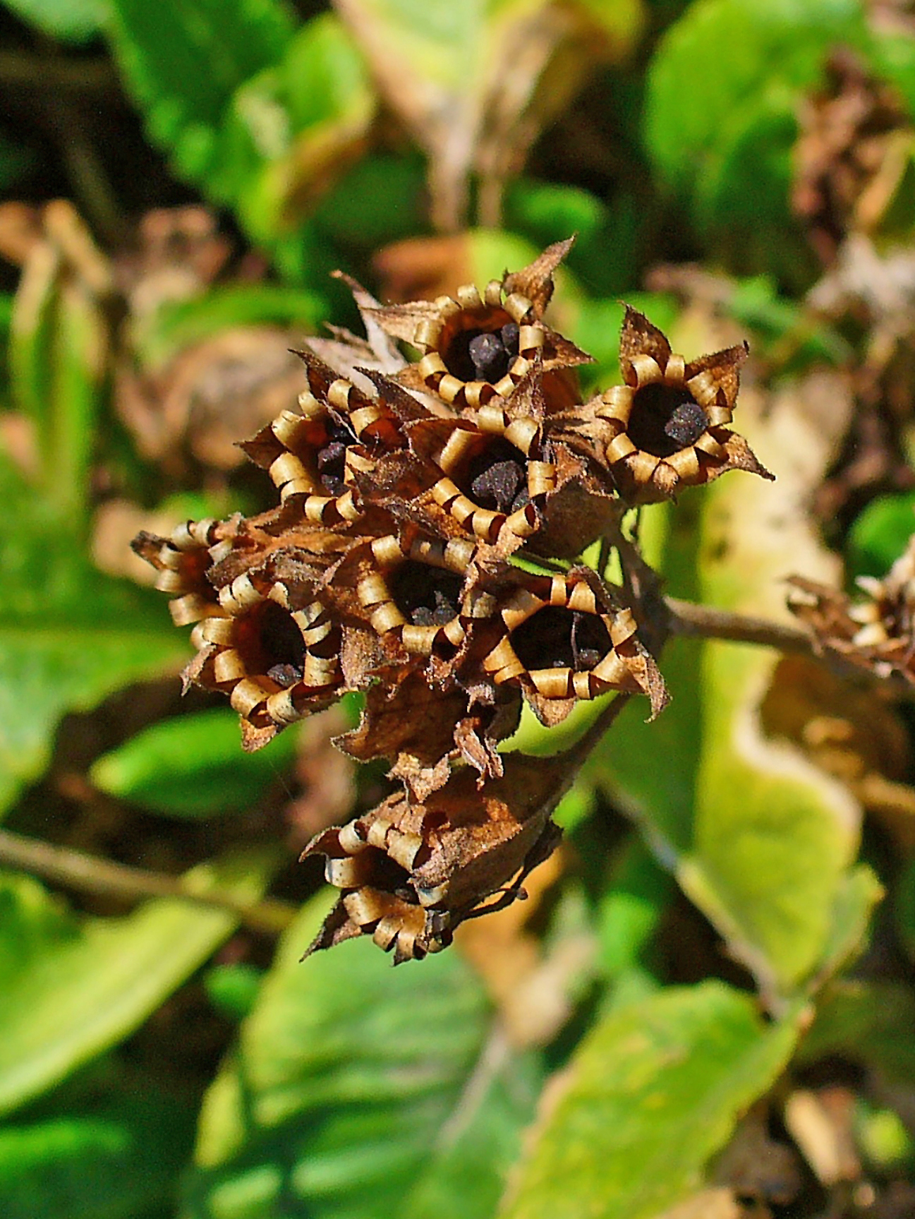 Primula veris, Primulaceae, Cowslip, infrutescence.